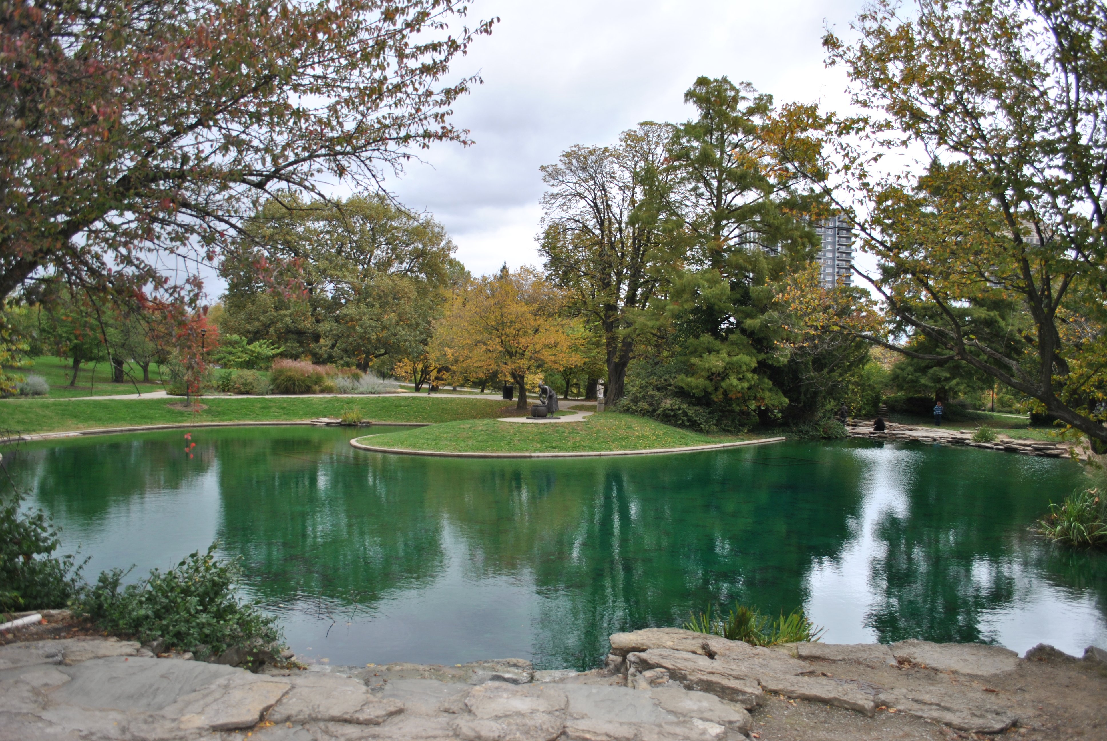 Eden Park View 2